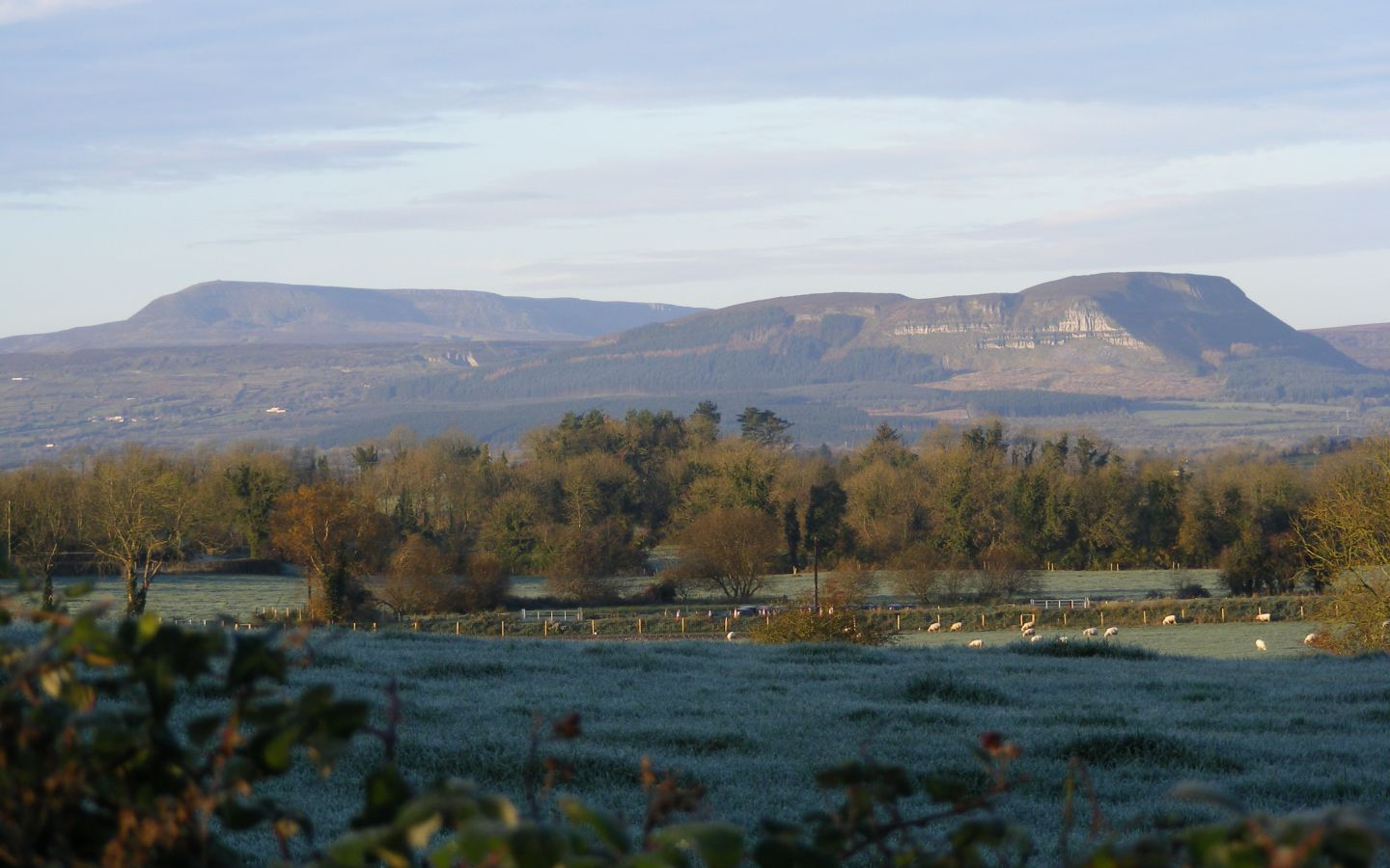 Cuilcagh & Benaughlin mountains in Fermanagh/Cavan, November 2007. Cuilcagh can be seen on the upper left and the cairn is visible. Cuilcagh is roughly twice the height of Benaughlin.